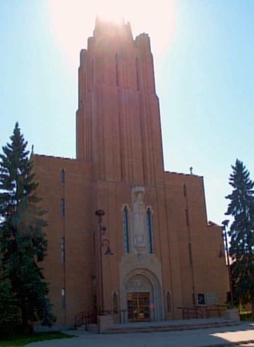 St Marys Cathedral In Calgary, front side.